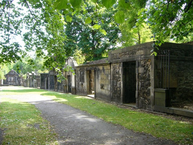 Covenanters Prison, Greyfriars Kirkyard. The area occupied by these tombs is known popularly as the "Covenanters' Prison" from the time when it was an open space enclosed by the town wall at the southern end of the kirkyard. After the Battle of Bothwell Brig in 1679 Battle_of_Bothwell_Bridge , some 1200 Covenanters were taken prisoner and kept here for several months pending trial. They survived from the charity of townspeople who provided them with food and drink. Some were subsequently executed in the Grassmarket; others gained their freedom in return for swearing allegiance to the Crown. Over two hundred and fifty were condemned to slavery and put on board a ship at Leith, sailing for the Barbados plantations. The ship ran into a storm between the mainland and the Orkneys, sinking with an estimated loss of over 200 lives. 638423